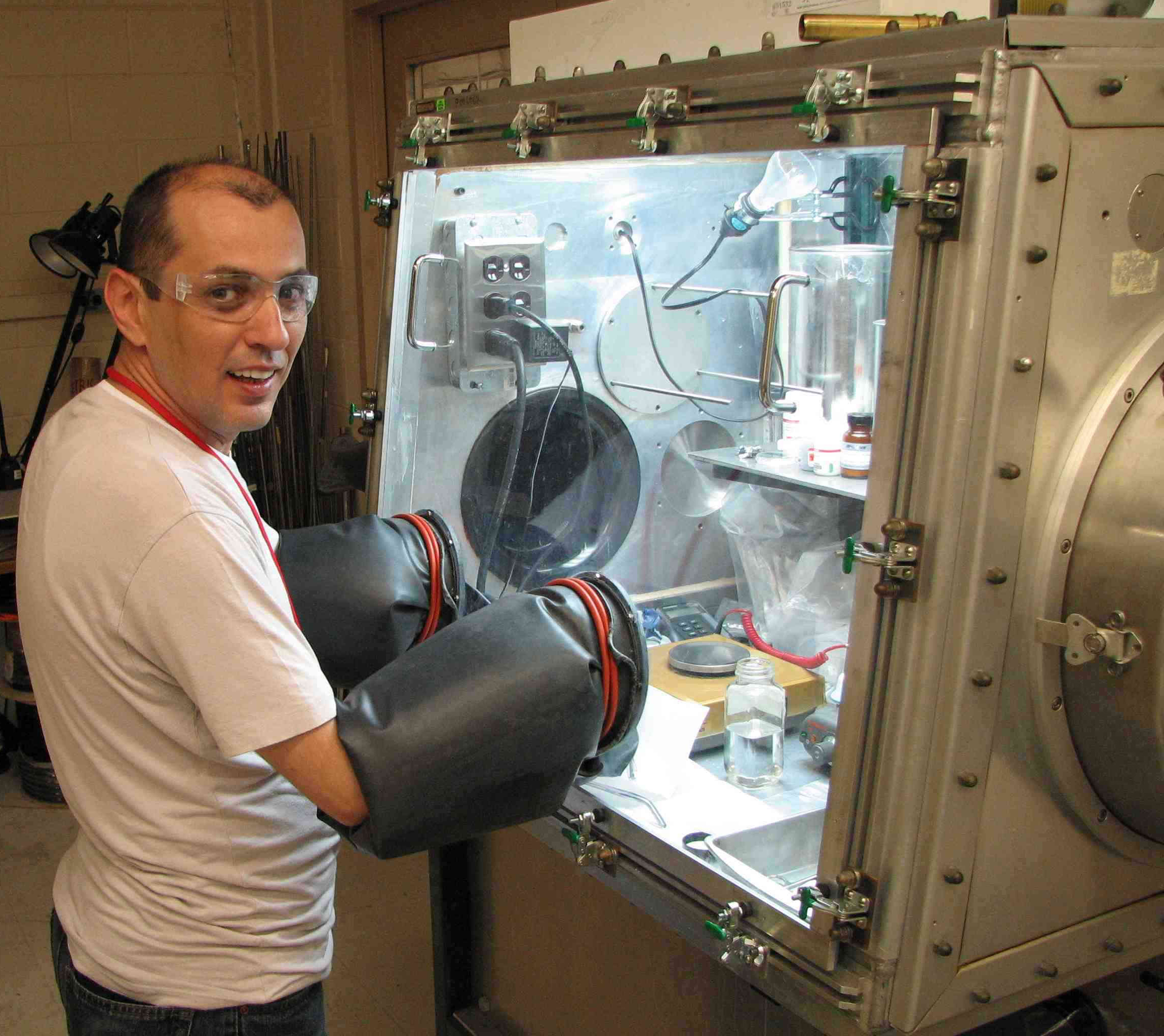 This experimental box can be used to perform sample preparations in a controlled environment. The atmosphere inside can be a specific gas or dry air. Gloves enable the operator to manipulate the experiments without admitting room air, and an airlock enables specimens to be introduced without contamination. See the entire Tribology Laboratory photo tour. View more about Argonne's transportation research at Photo courtesy of Argonne National Laboratory.